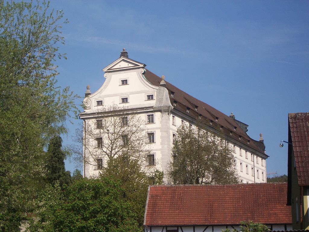 Weingarten, Germany: Fruchtkasten (cereals warehouse of the Weingarten abbey), now college library